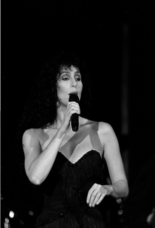 Cher at the Pediatric AIDS Foundation. She did a pocket show with five songs and talked about her split with bagel boy Rob Camilletti: "I just broke up with my boyfriend, so this next song ['We All Sleep Alone'] is particularly meaningful to me.")